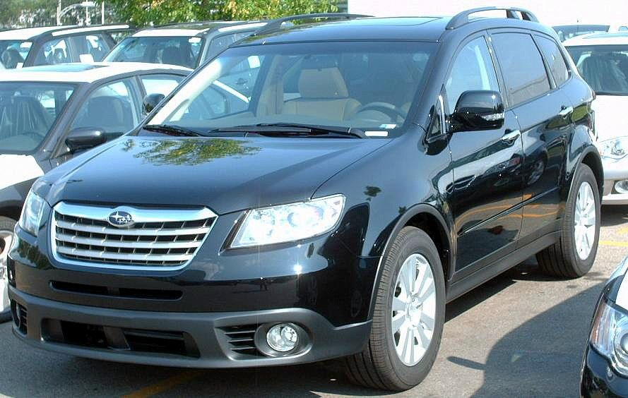 2008 Subaru B9 Tribeca photographed in Montreal, Quebec, Canada.